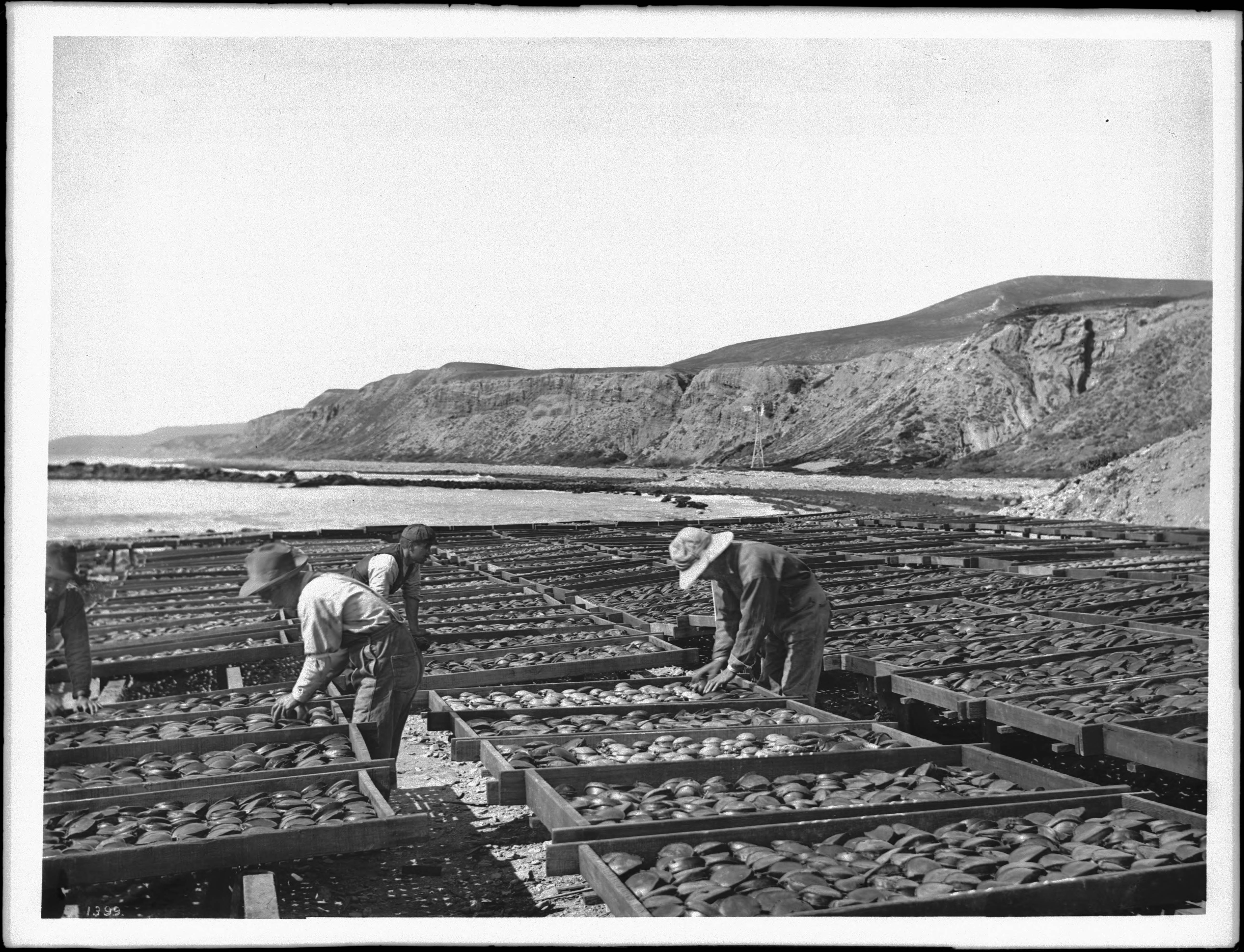 Workers drying abalone shells in the sun in southern California Photograph of 4 men drying abalone in dozens of large wooden trays layed out on the beach north of Point Fermin, San Pedro, California. The rocky shoreline and palisades are visible behind them. Call number: CHS-1399 Filename: CHS-1399 Coverage date: circa 1900 Part of collection: California Historical Society Collection, 1860-1960 Format: glass plate negatives Type: images Geographic subject (city or populated place): San Pedro; San Pedro Repository name: USC Libraries Special Collections Accession number: 1399 Microfiche number: 1-107-13; 1-50-6 Archival file: chs_Volume76/CHS-1399.tiff Part of subcollection: Title Insurance and Trust, and C.C. Pierce Photography Collection, 1860-1960 Repository address: Doheny Memorial Library, Los Angeles, CA 90089-0189 Geographic subject (country): USA Format (aacr2): 2 photographs : glass photonegative, photoprint, b&w ; 17 x 22 cm., 21 x 26 cm. Rights: Digitally reproduced by the USC Digital Library; From the California Historical Society Collection at the University of Southern California Subject (adlf): industrial sites Project: USC Repository Contributing entity: California Historical Society Date created: circa 1900 Publisher (of the digital version): University of Southern California. Libraries Format (aat): photographic prints; photographs Geographic subject (state): California Subject (file heading): Industry -- Fishing Legacy record ID: chs-m11939; USC-1-1-1-12091 Access conditions: Send requests to address or e-mail given. Phone (213) 821-2366; fax (213) 740-2343. Geographic subject (county): Los Angeles Subject (lcsh): Fishing; Abalone fisheries